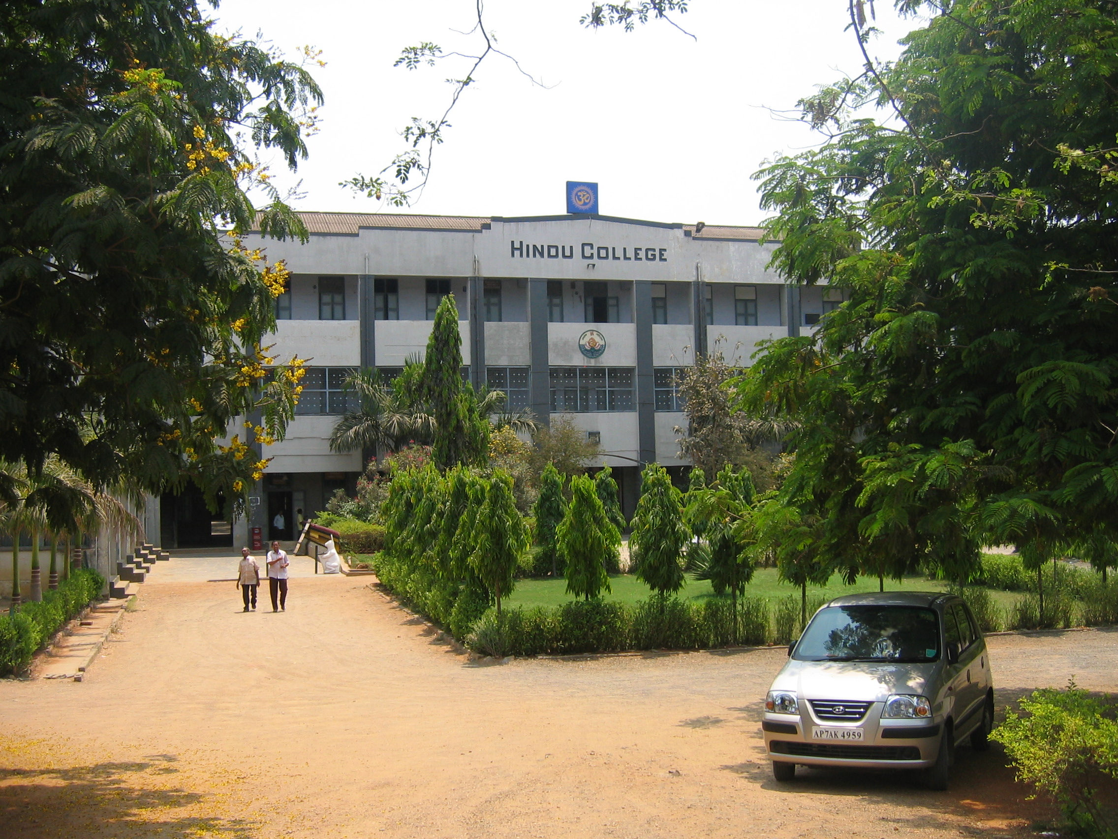 A picture of the main campus for the Hindu College, Guntur, India.